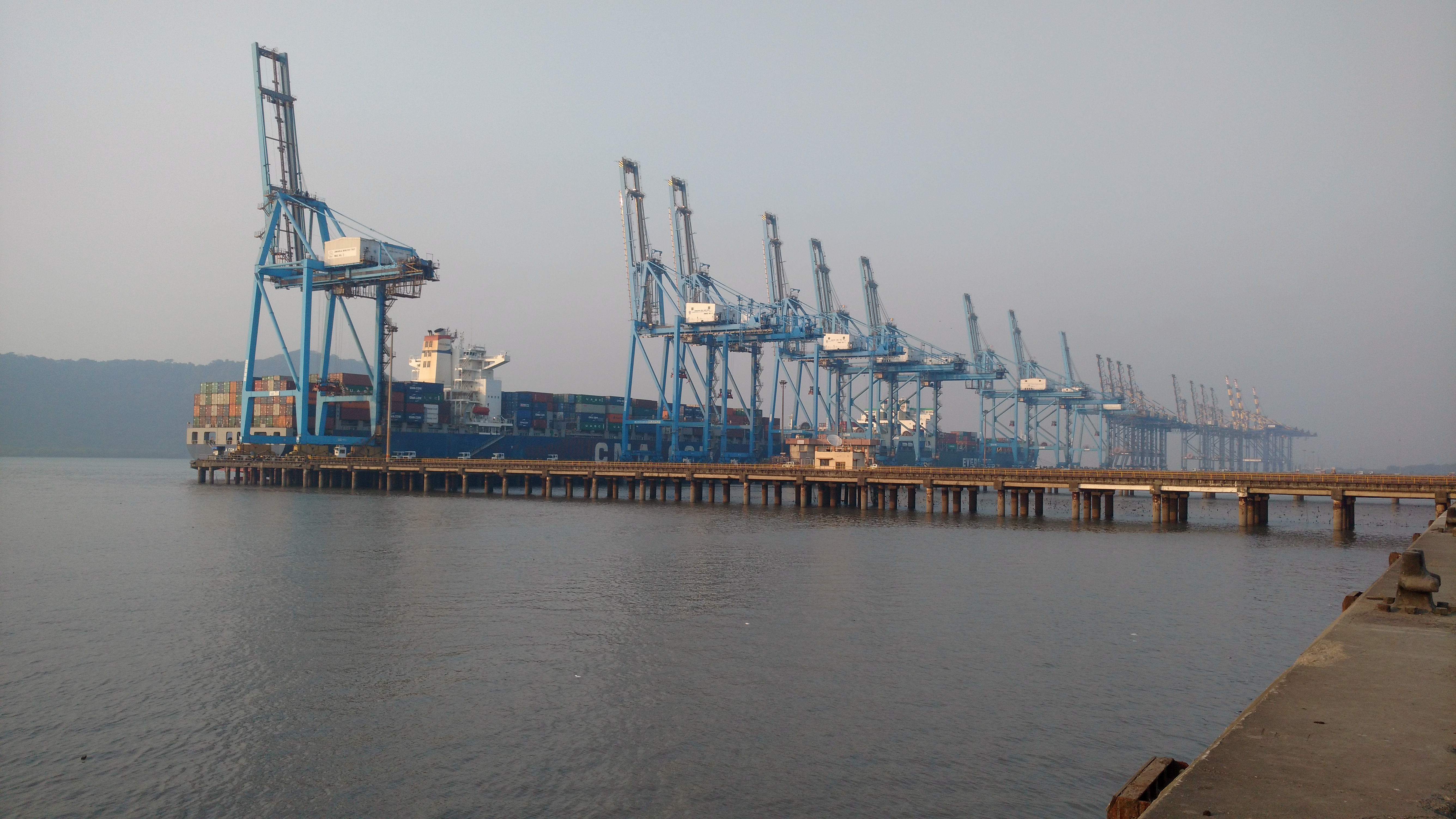 Container handling on the JNPT Port